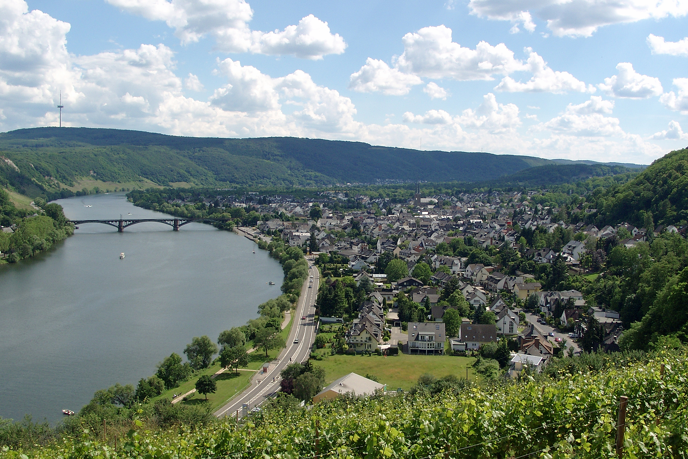 View of Koblenz-Güls and the Moselle